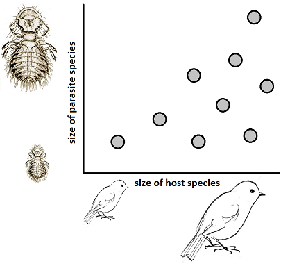 Schematic representation of Harrison's rule with Poulin's supplement